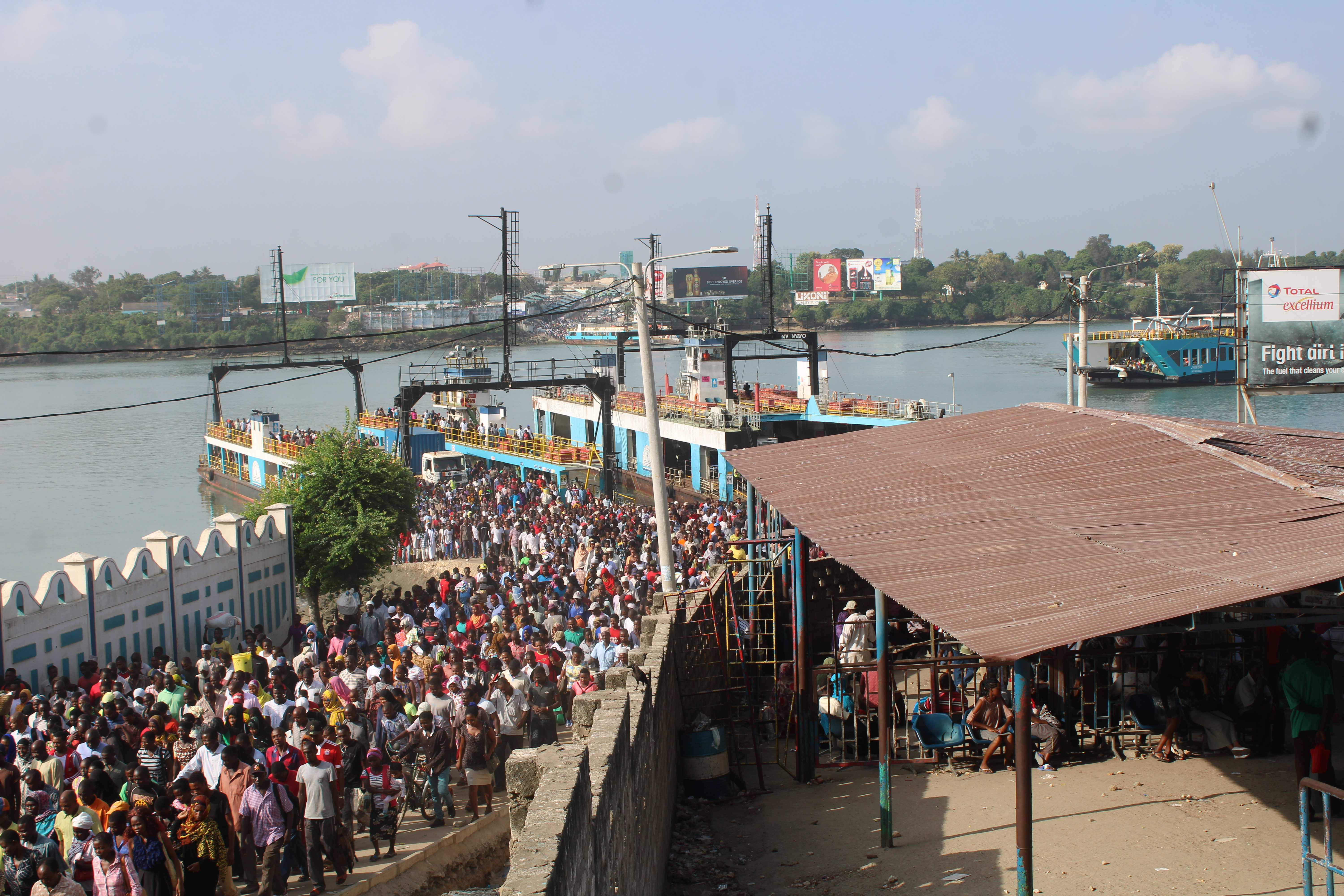 This is an image with the theme "Africa on the Move or Transport" from: Kenya